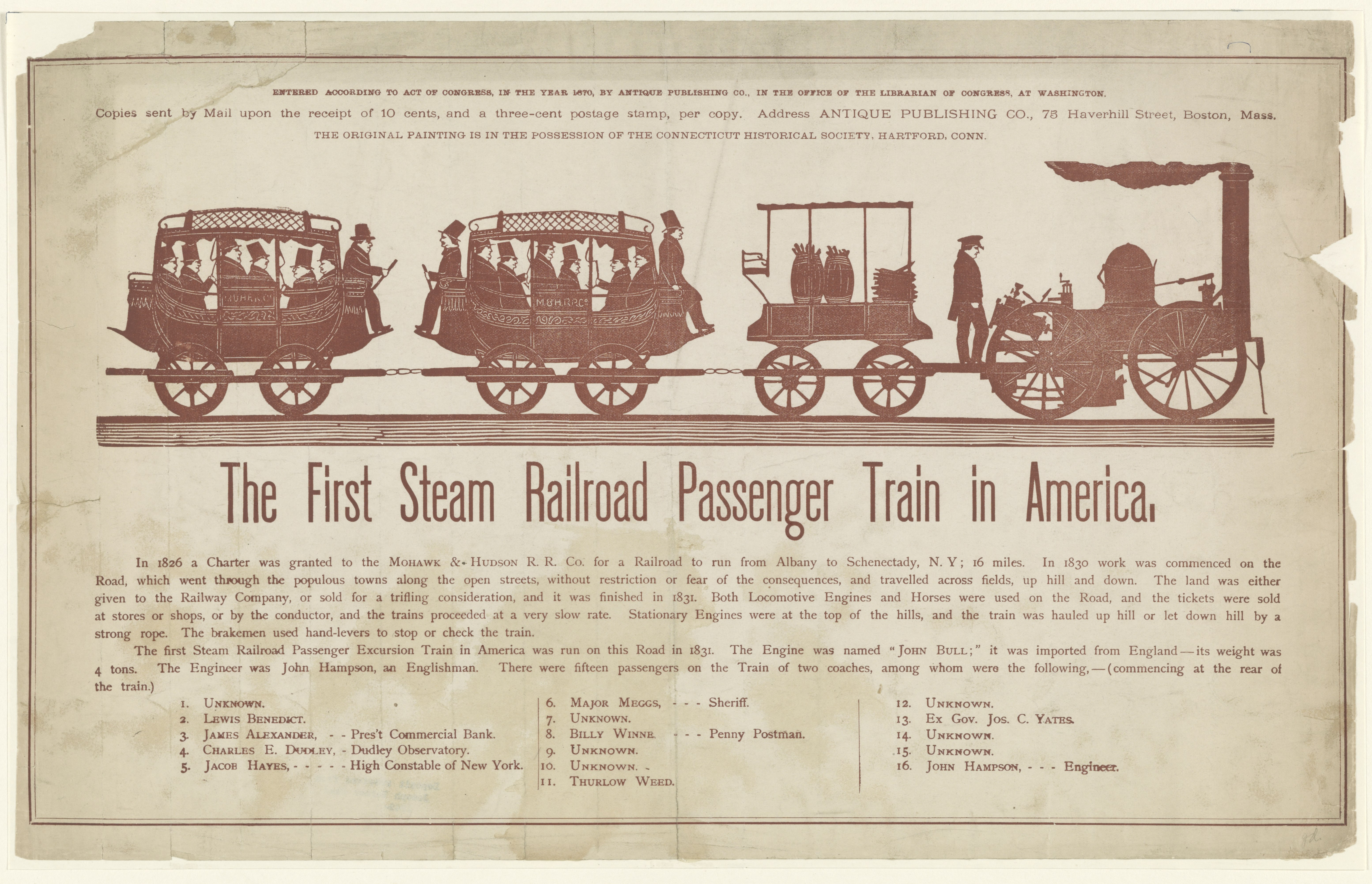 Title: The first steam railroad passenger train in America Abstract: The Mohawk & Hudson Rail Road showing a steam engine with car for fuel followed by two passenger cars styled after the stagecoach. Physical description: 1 print : woodcut, color. Notes: "The original painting is in the possession of the Connecticut Historical Society, Hartford, Conn."; Includes historical text and identifies several of the riders depicted in the image.; Copyright by Antique Publishing Co., Boston, Mass.